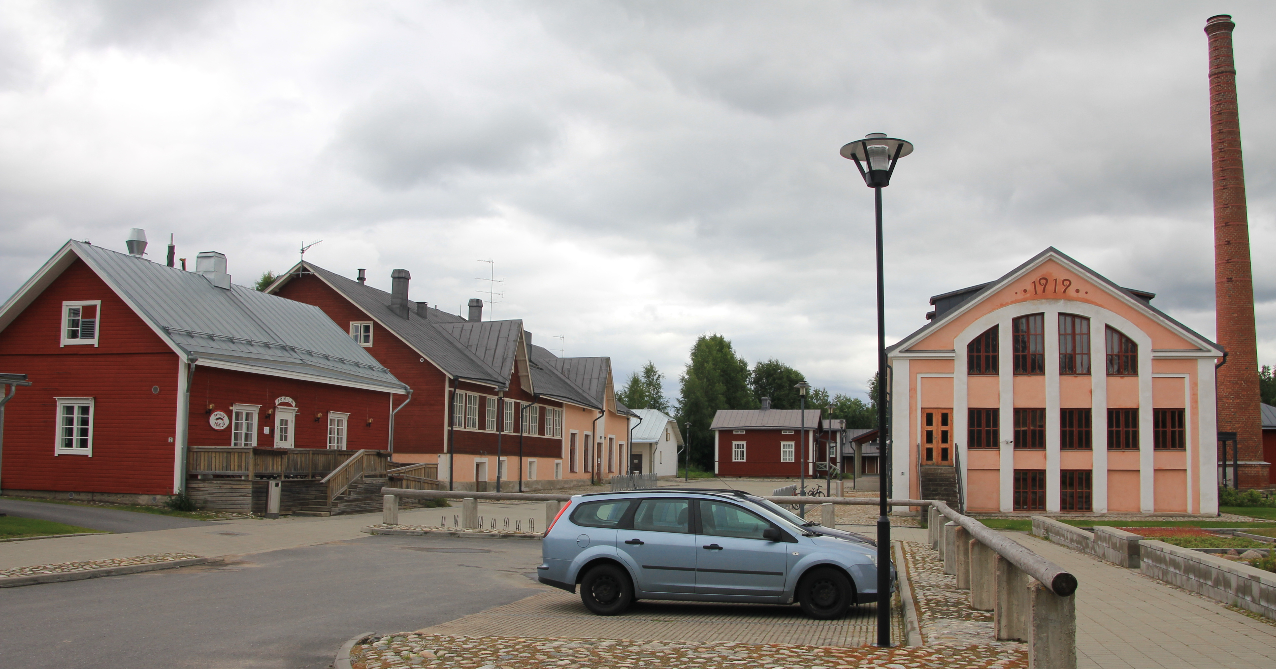 Meijerikatu, Tyrnävä, Finland